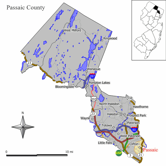 Original work by Jim Irwin, December 2005. Map of Passaic in Passaic County, New Jersey.